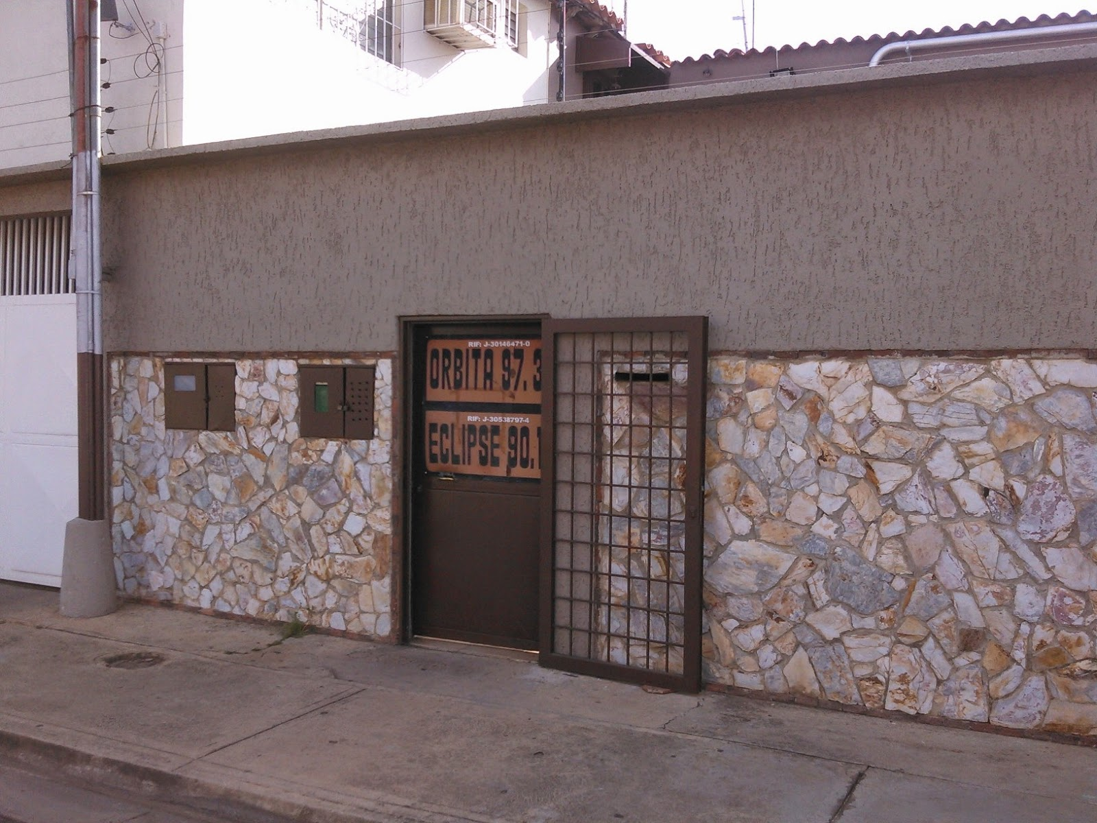 Sede De Orbita Radio Y Radio Eclipse